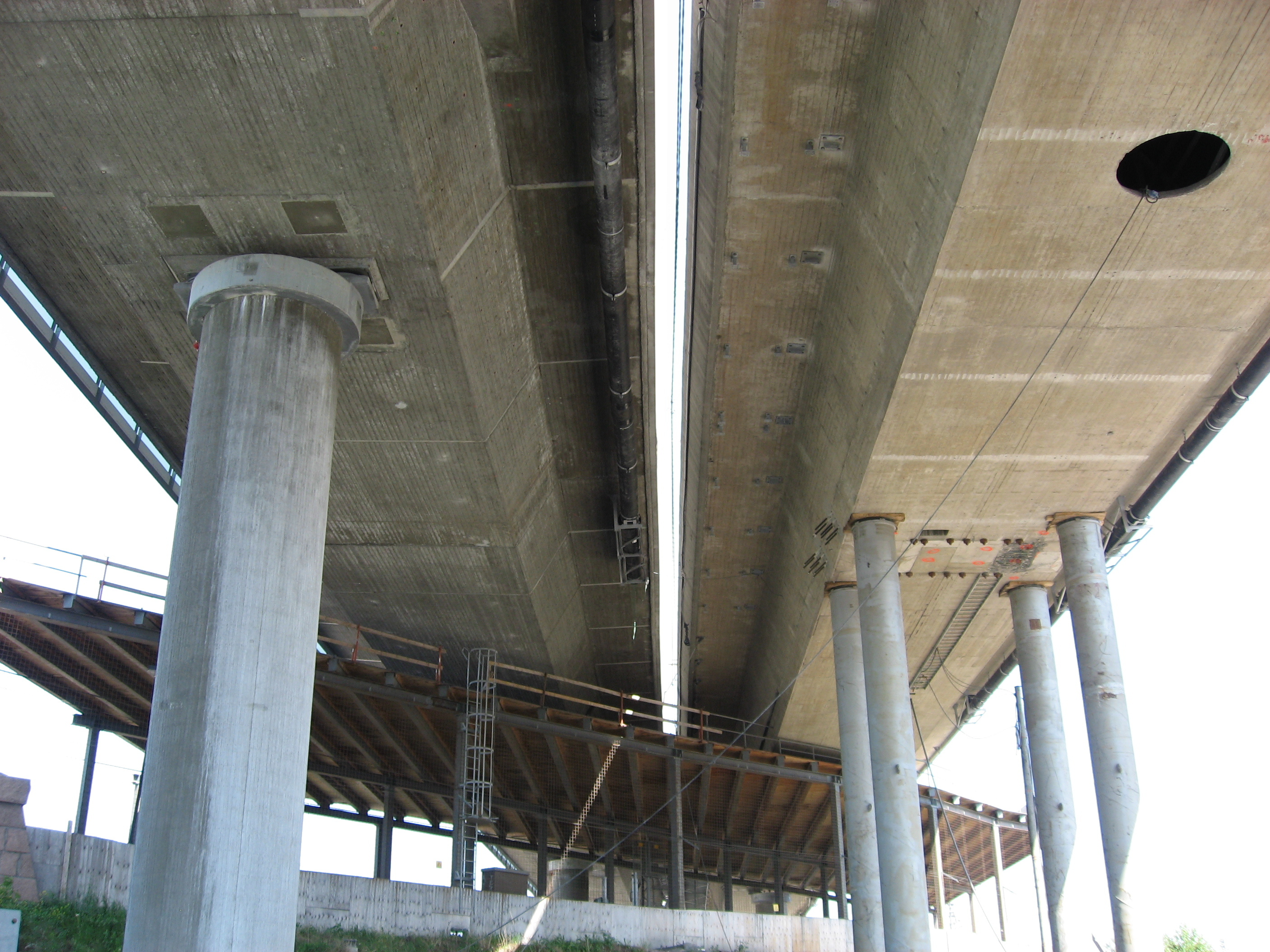 Motorway bridge in Drammen, Norway. Underneath. Changing the columns - temporary support.